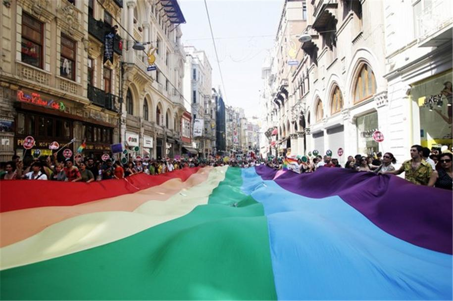 Turkish homosexuals and human rights activits are chanting slogans against Turkish goverment's policies during a gay pride at İstiklal Avenue in İstanbul, Turkey.